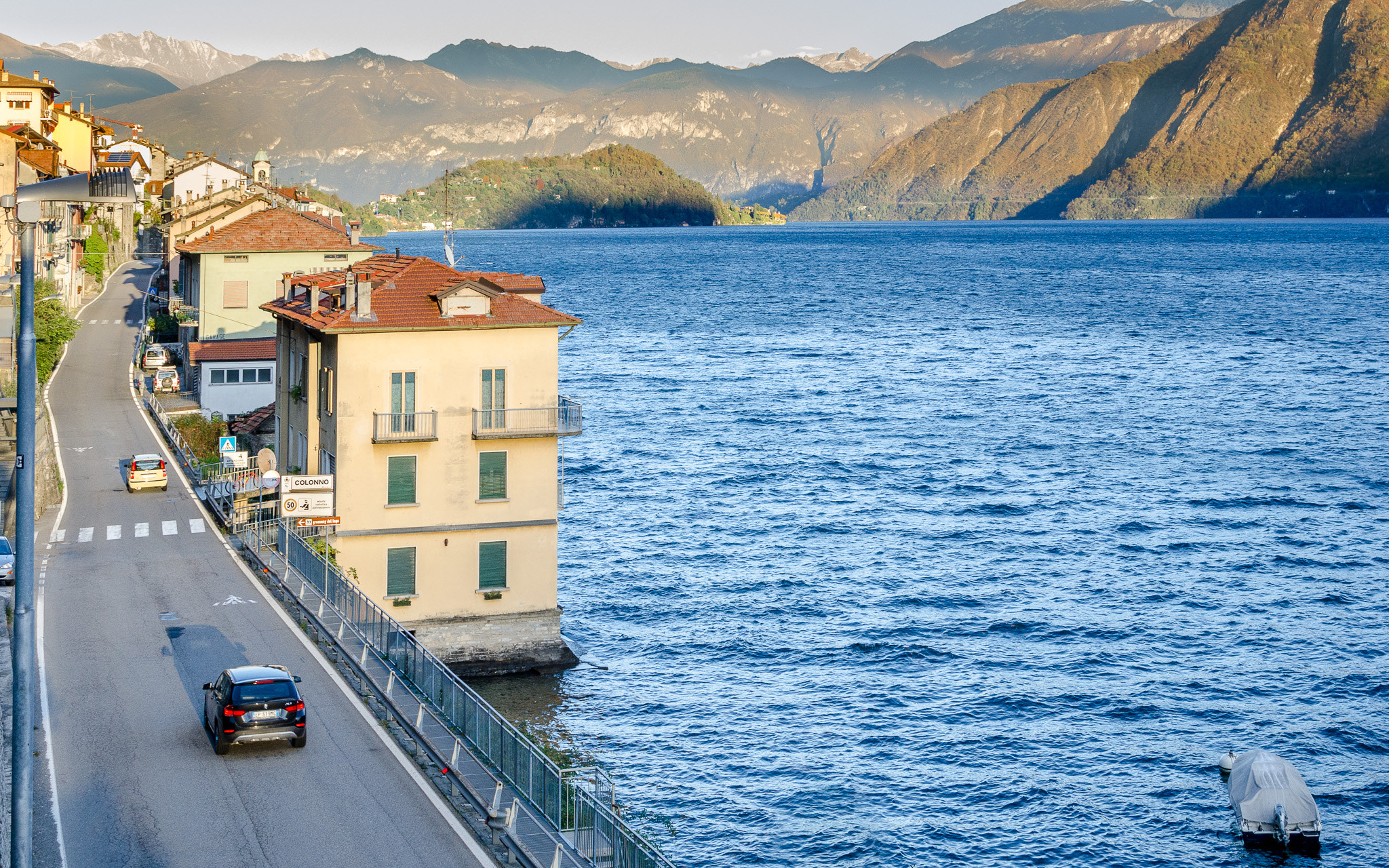 500px provided description: Colonno [#lake ,#sun ,#light ,#Italy ,#Lake Como ,#Lombardia ,#Colonno]